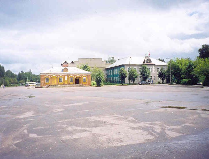 Maksatikha